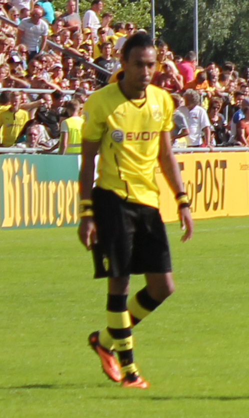 Pierre-Emerick Aubameyang 2013 during a match in Wilhelmshaven